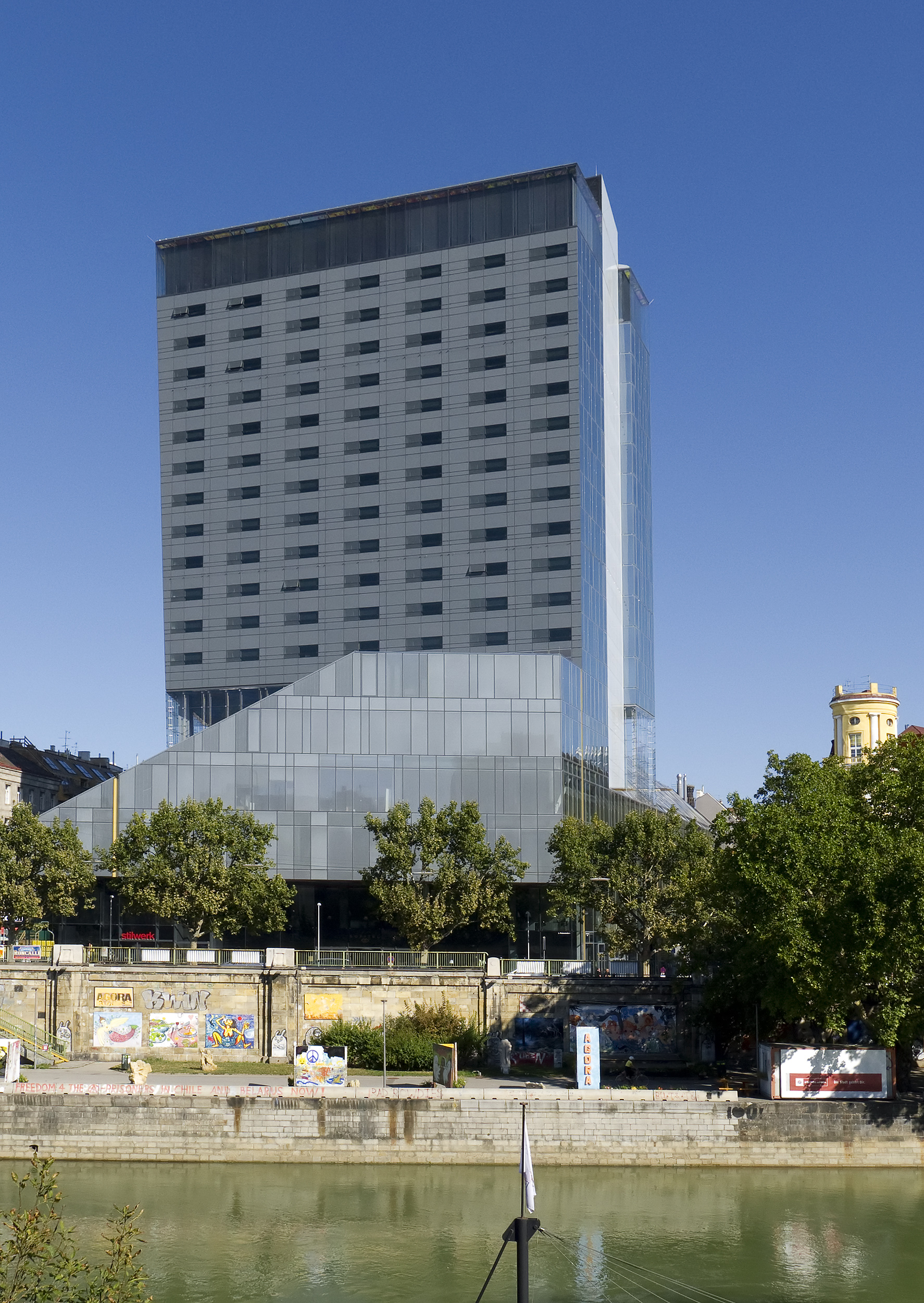 Building Taborstraße 2, Vienna